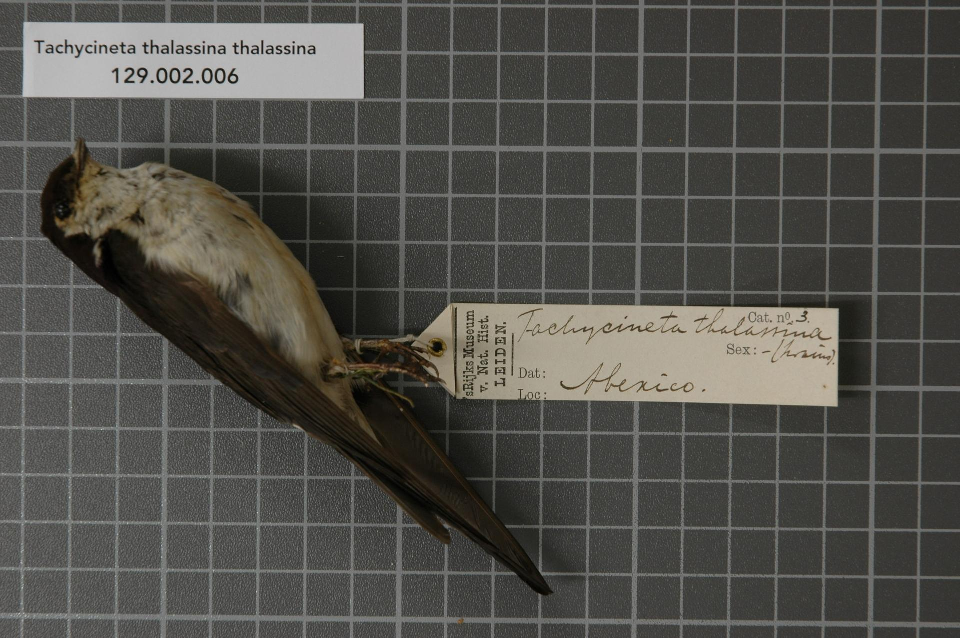 Tachycineta thalassina thalassina (Swainson, 1827)